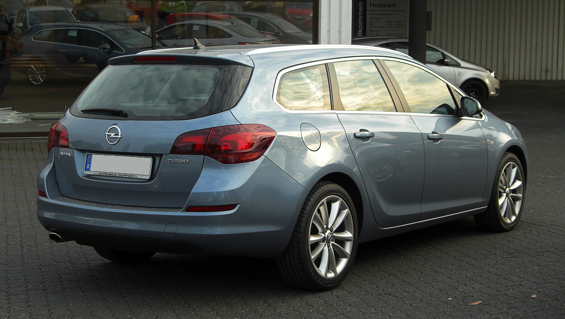 Opel Astra Sports Tourer 1.4 Turbo ECOTEC Sport (J)